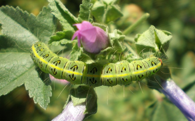 Near Tàrrega, Lleida, Catalonia.